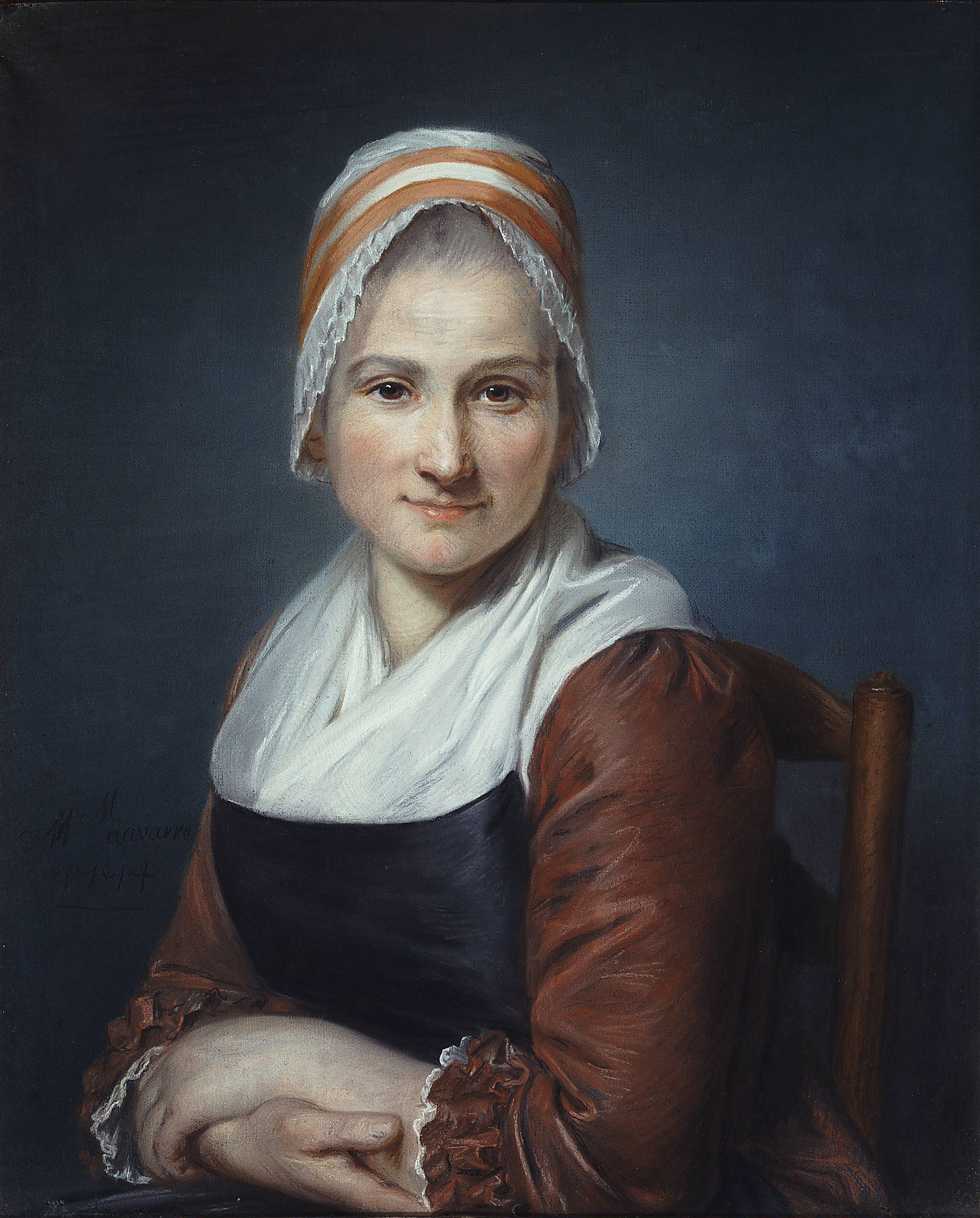 Marie-Geneviève Navarre (1737-1795).Portrait of a Young Woman, 1774.Pastel on paper, 24 x 19 ¾ in. (61 x 50.2 cm).